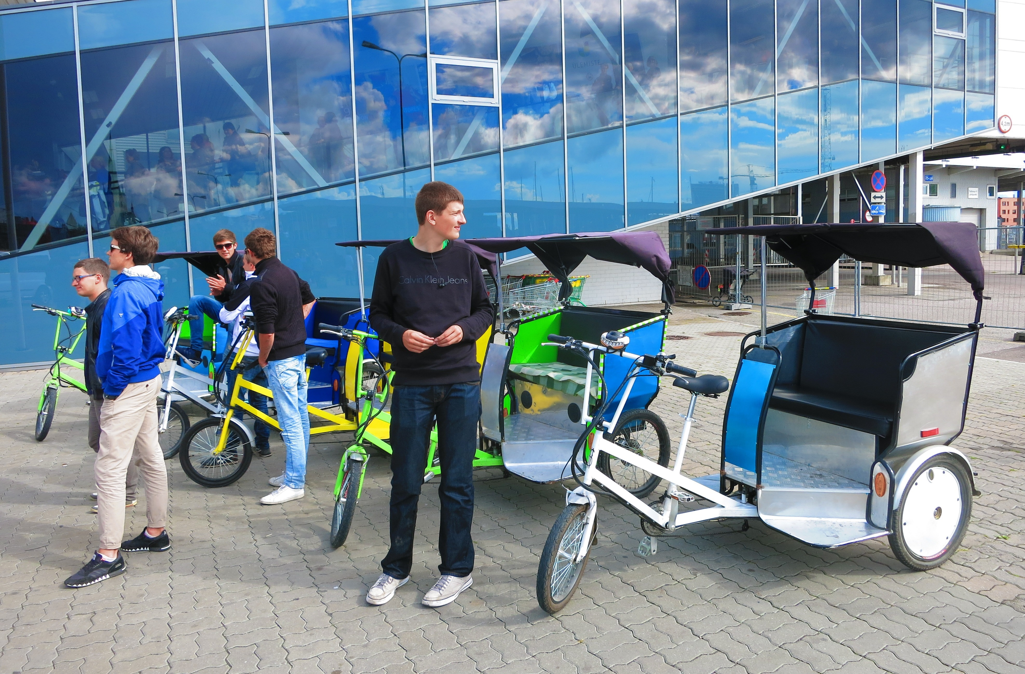 Cycle rickshaws in Tallinn Passenger Port